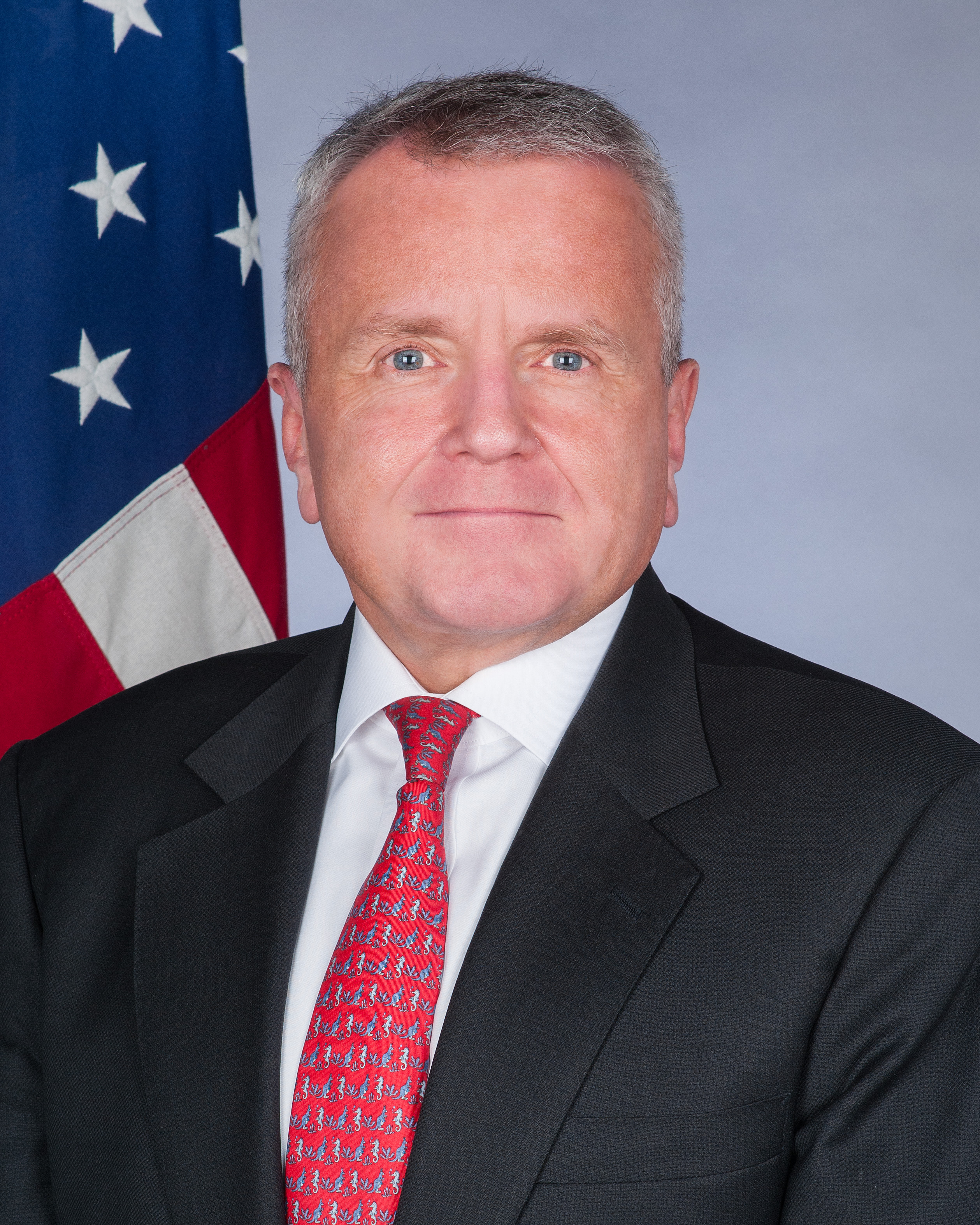 John J Sullivan's official state department photo